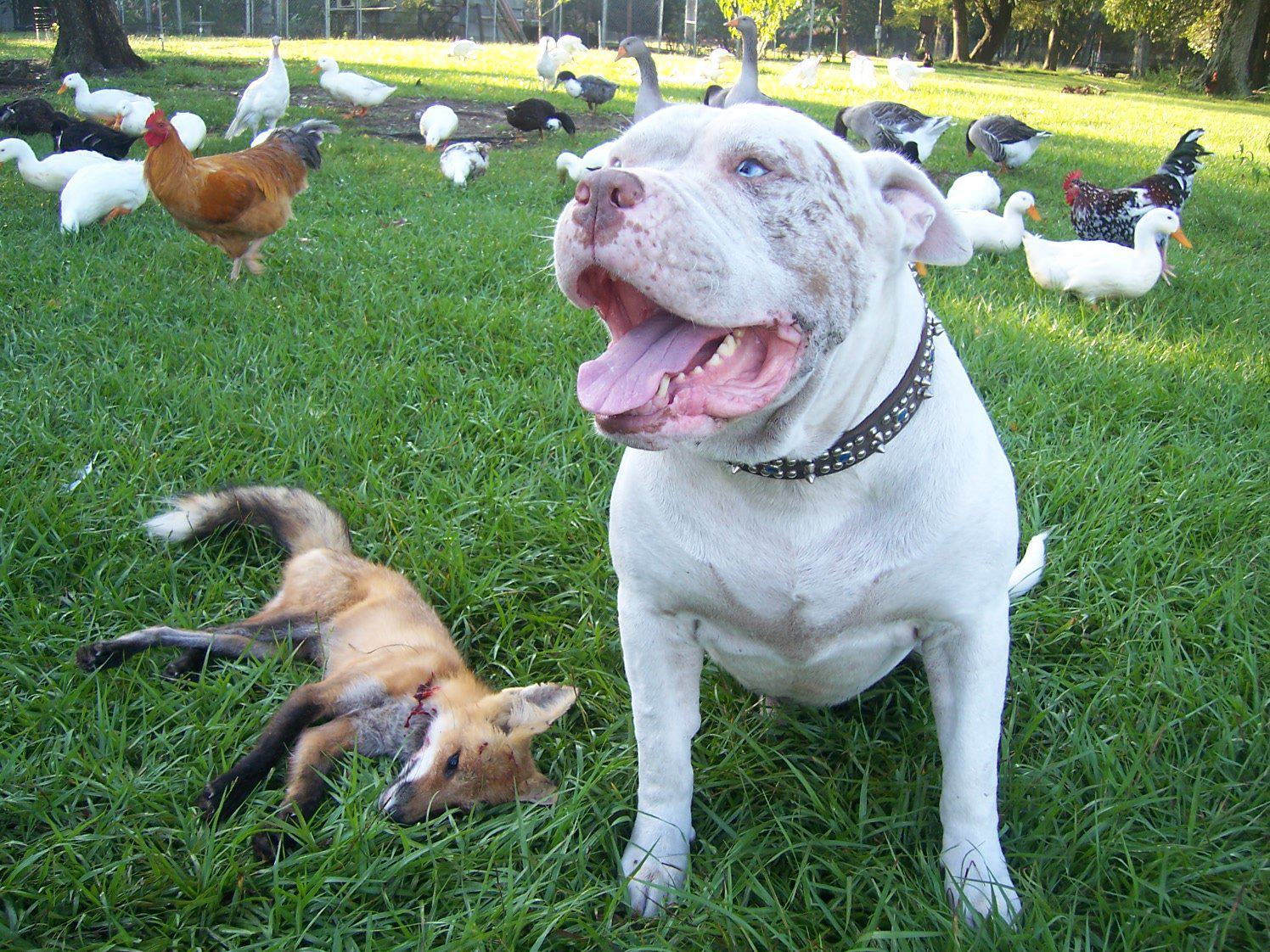 25/75 Type Catahoula Bulldog